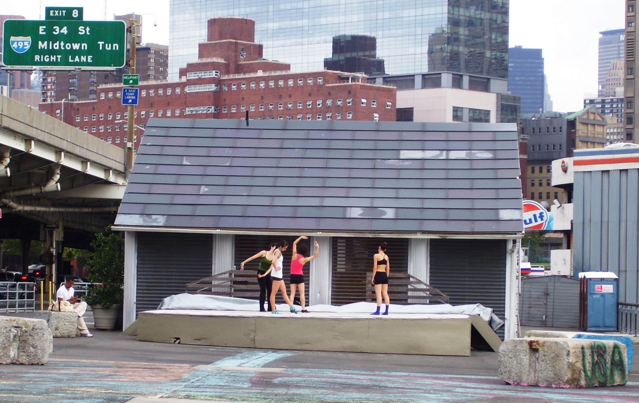 A small dance company rehearses for a performance on an outdoor stage in Stuyvesant Cove Park, Manhattan, New York City